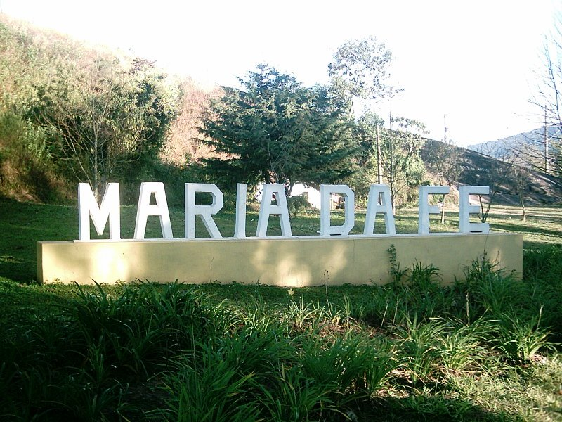 Maria da Fe Entrance